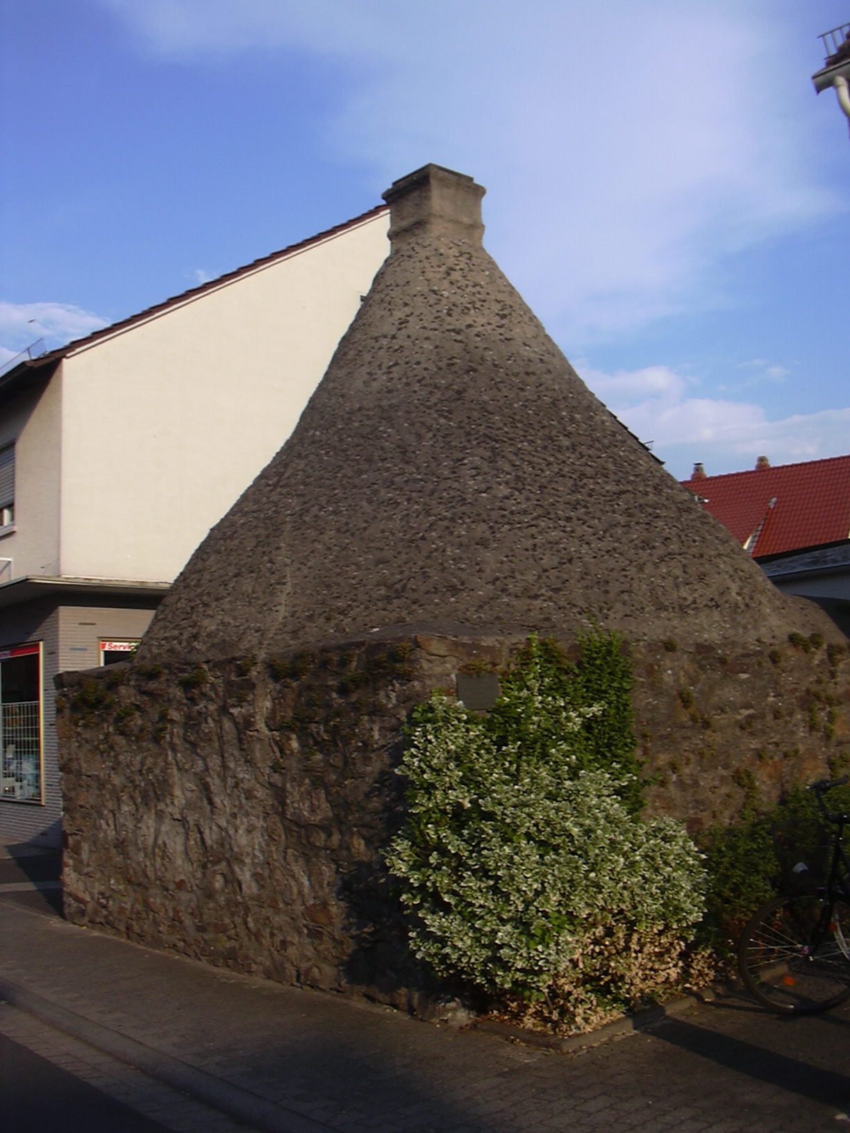 Bakery oven (17th century) at Kahl, near Aschaffenburg, Bavaria/Germany